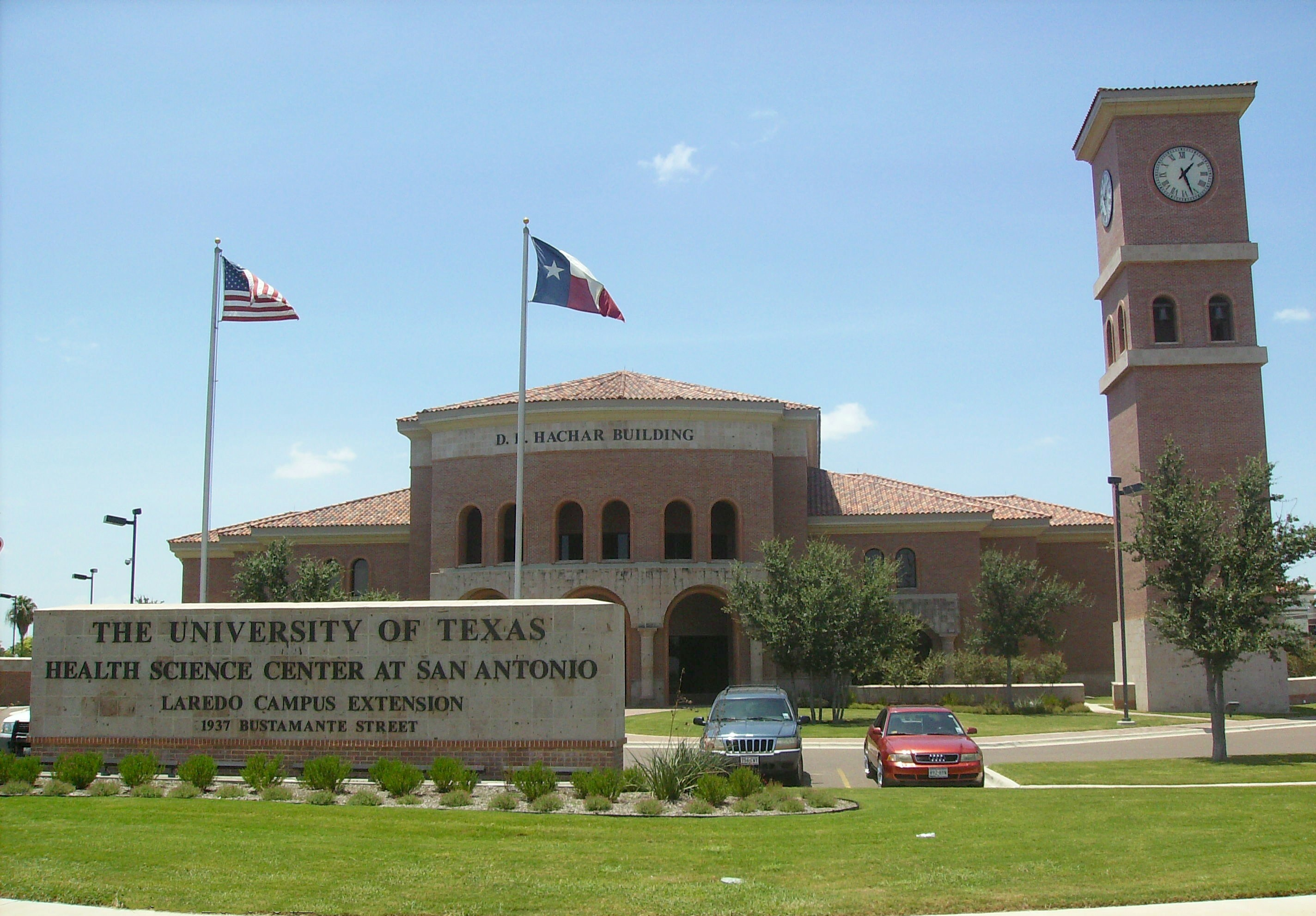 University of Texas Health and Science Center Laredo main building